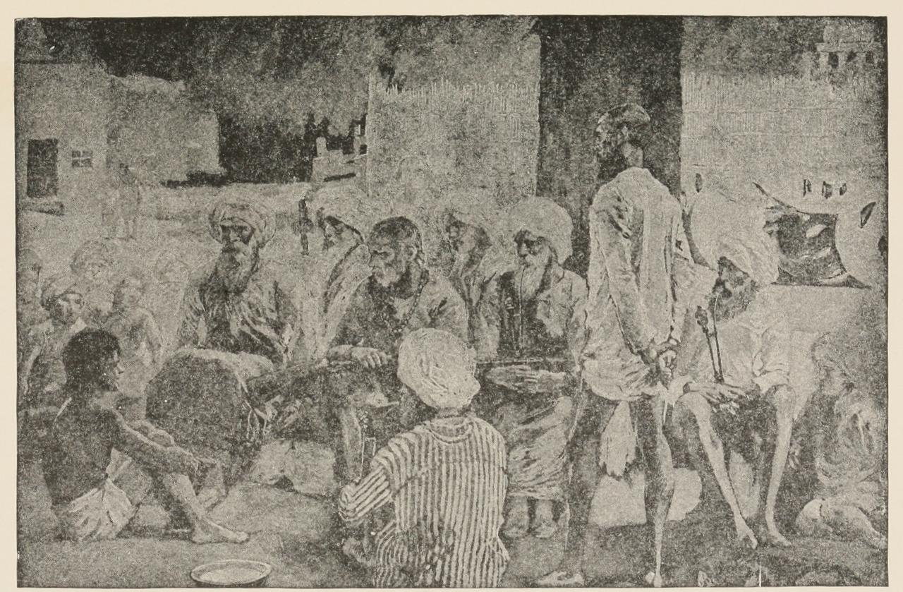 "'Are all these tales such cobwebs and moon-talk?' said Mowgli."